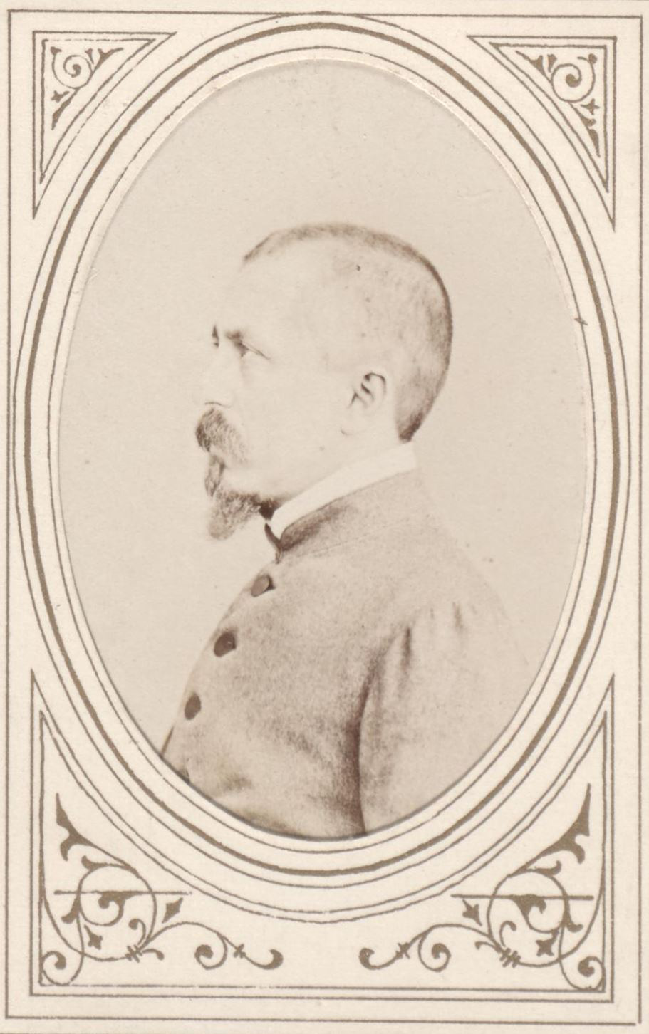 Plate 08 Photograph album of German and Austrian scientists. Berlin II: Dr. Eduard Reich, to Rostock. Eduard Reich (1836-1919), Doctor of Medicine, Legal Director and Vice President of KL-C. Academy, member of the French Society of Hygieine in Paris, the Society for Public Medicin in Paris, the Aetiological-Medicinal Society in Berlin, the Hygienin Association in Berlin, etc., formerly Professor agrégé der Medicin at the University of Bern.[1][2]